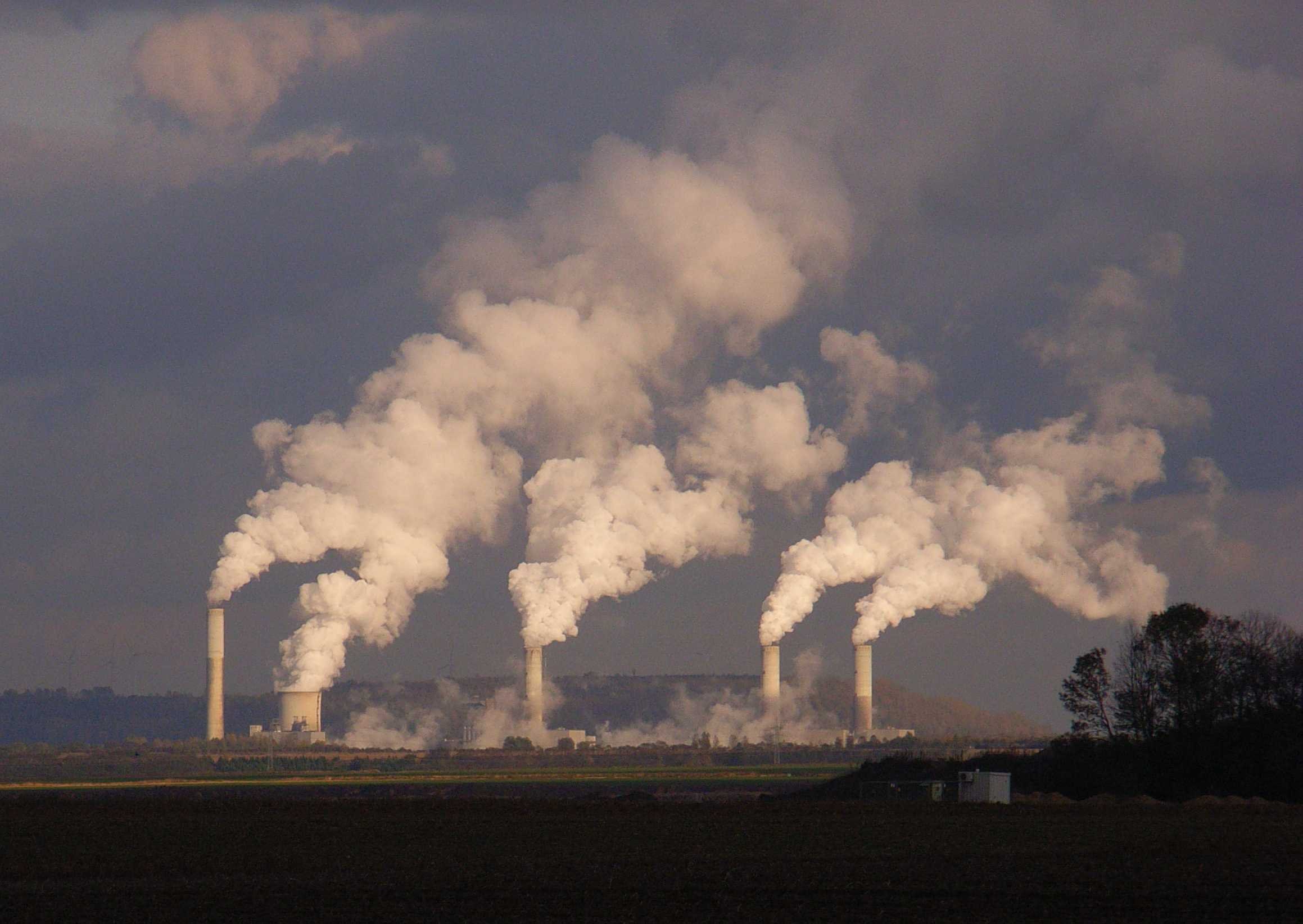 RWE Powerstation Frimmersdorf, NRW